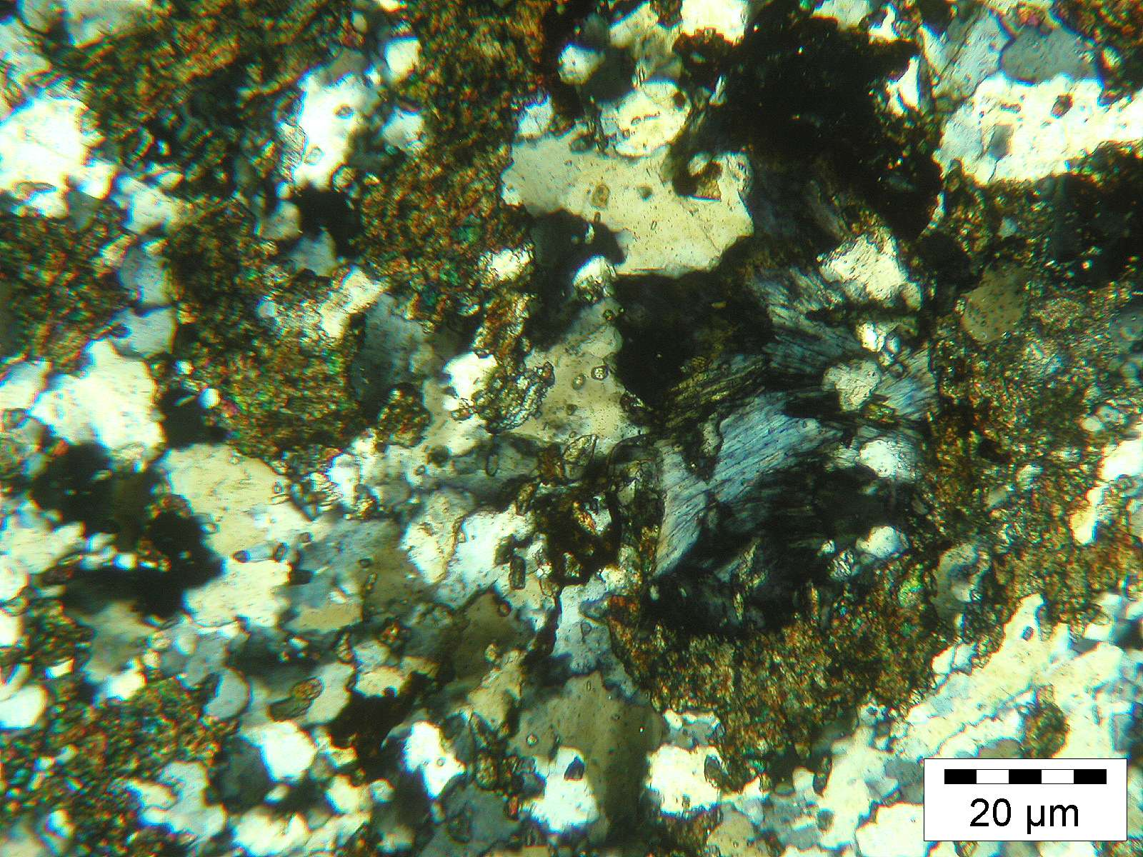 Orthite amd melilite (bluish) with quartz, crossed light, compare Image:Orthit_11.jpg